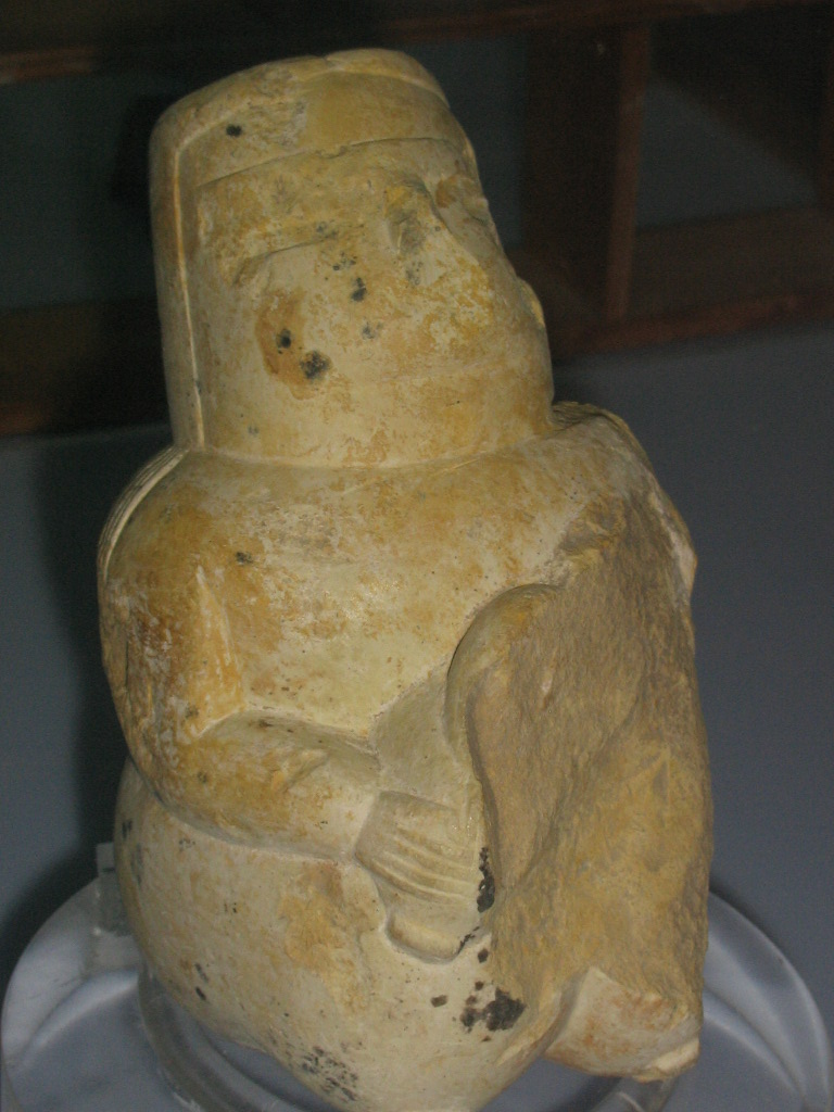 statue from ozieri culture